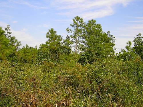 A photo in the photo gallery of Carolina Forest, taken by me. This photo may reappear under Flickr under different licensing terms, but is released into the public domain under Wikipedia and its subsidiary projects.